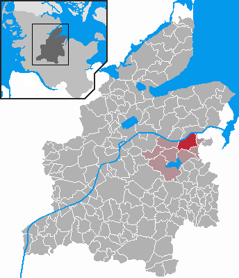 Locator maps of municipalities in Schleswig-Holstein - District Rendsburg-Eckernförde